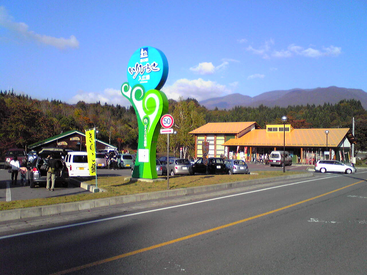 Irihirose, Roadside Station, Niigata, Japan.